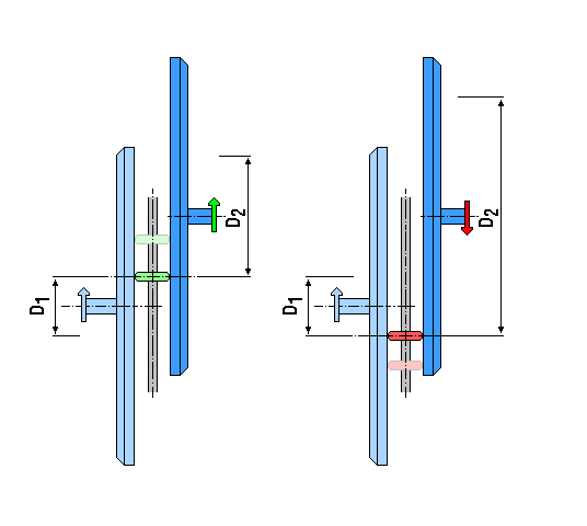 Gear box (variator)